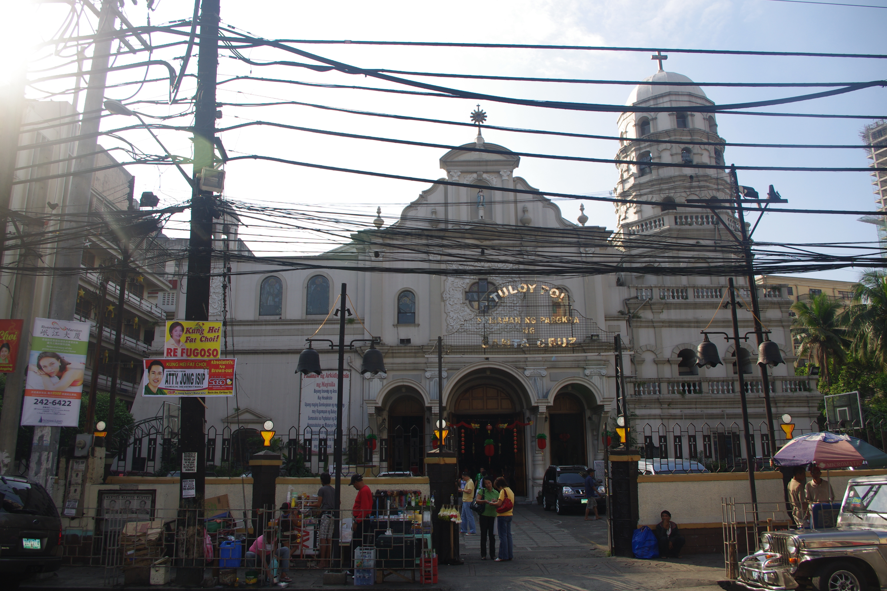 Sta. Cruz Church in Manila